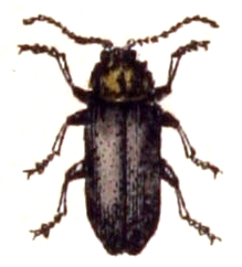 Calomicrus pinicola, from Calwer's Käferbuch, Table 43, Picture 8. Taxonomy was updated to 2008, using mostly the sites Fauna Europaea and BioLib. Please contact Sarefo if the determination is wrong!